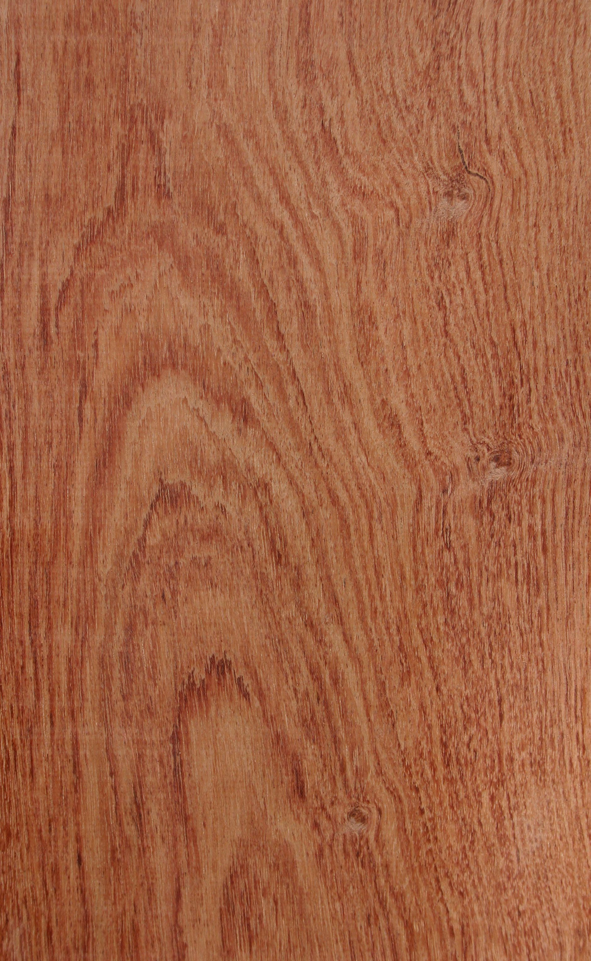 Timber of Guibourtia coleosperma - sawmill at Honeydew, Johannesburg